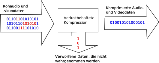 Lossy compression